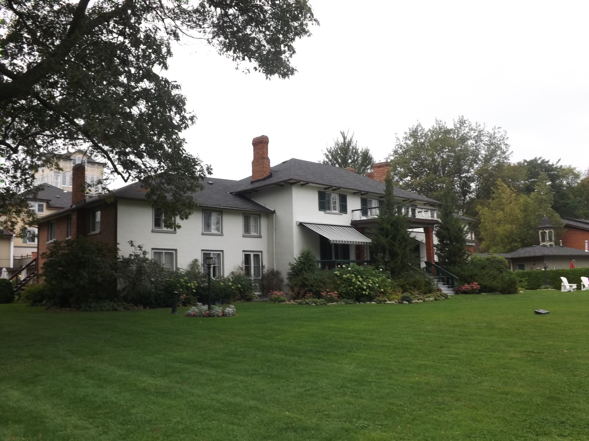 Full view of the Manor House at The Briars